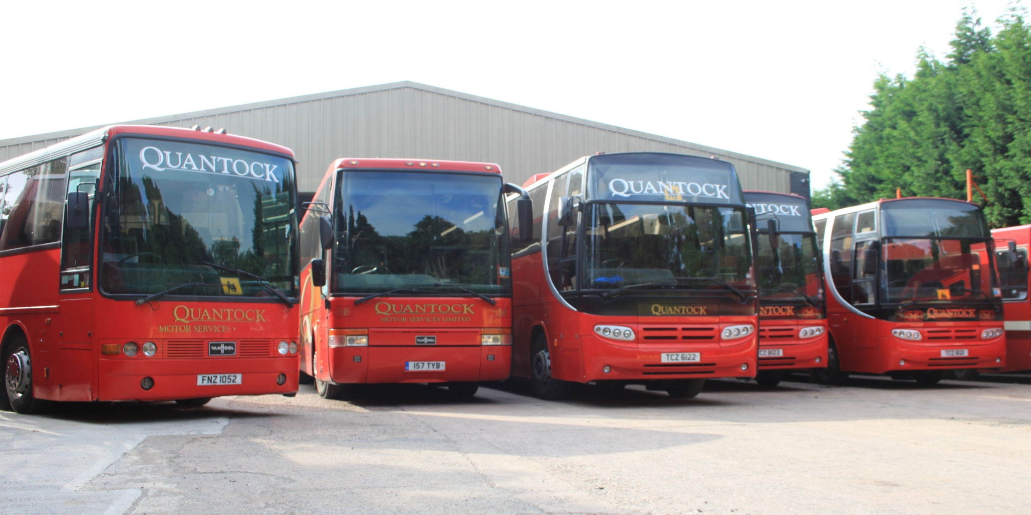 A line up of coaches outside the Bishops Lydeard depot of Quantock Motor Services. The ones with red fronts are Van Hool Alizees, the ones with red radiators are Plaxton Paramount IIIs.